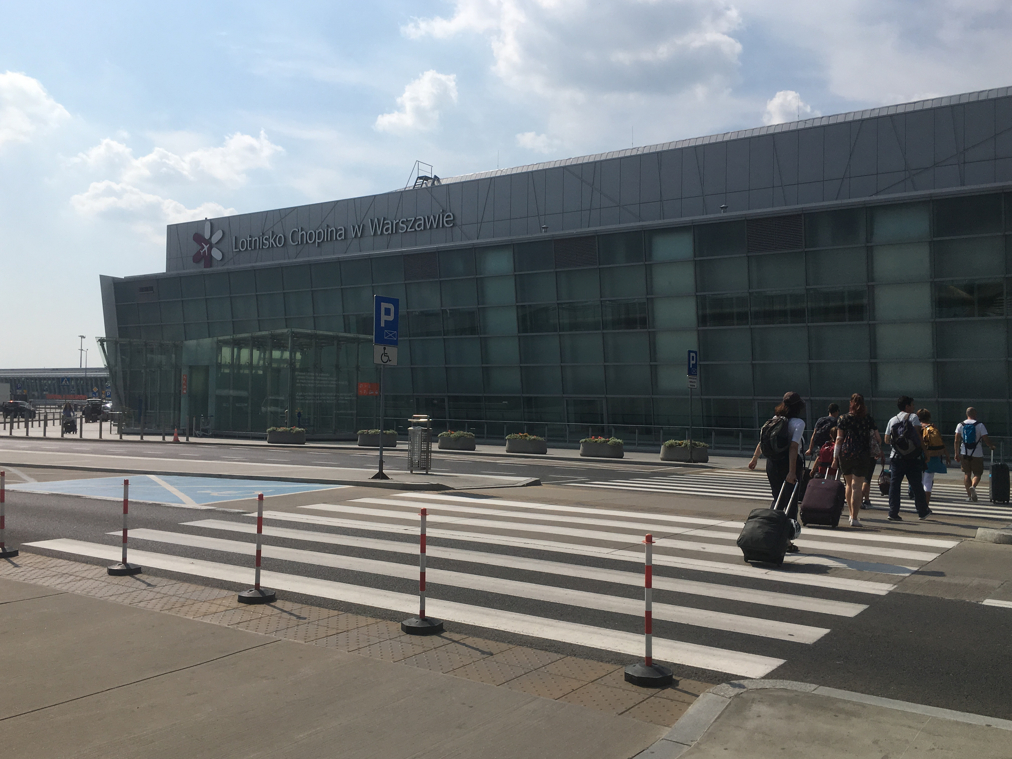 Warsaw Chopin Airport